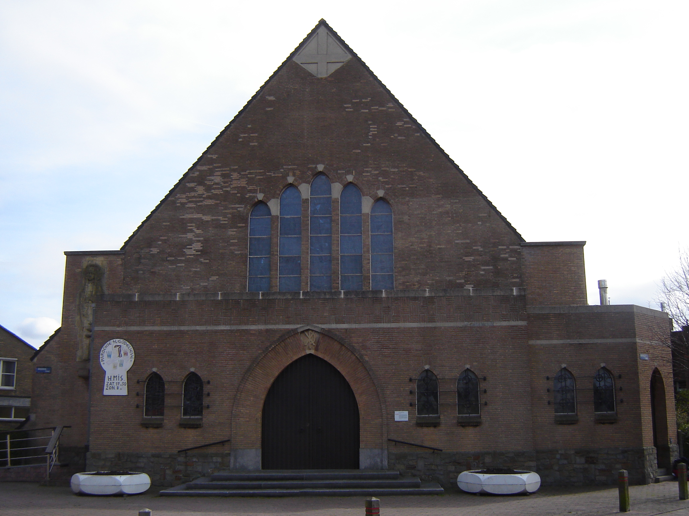 Church of Saint Godelina. Oostende, West Flanders, Belgium